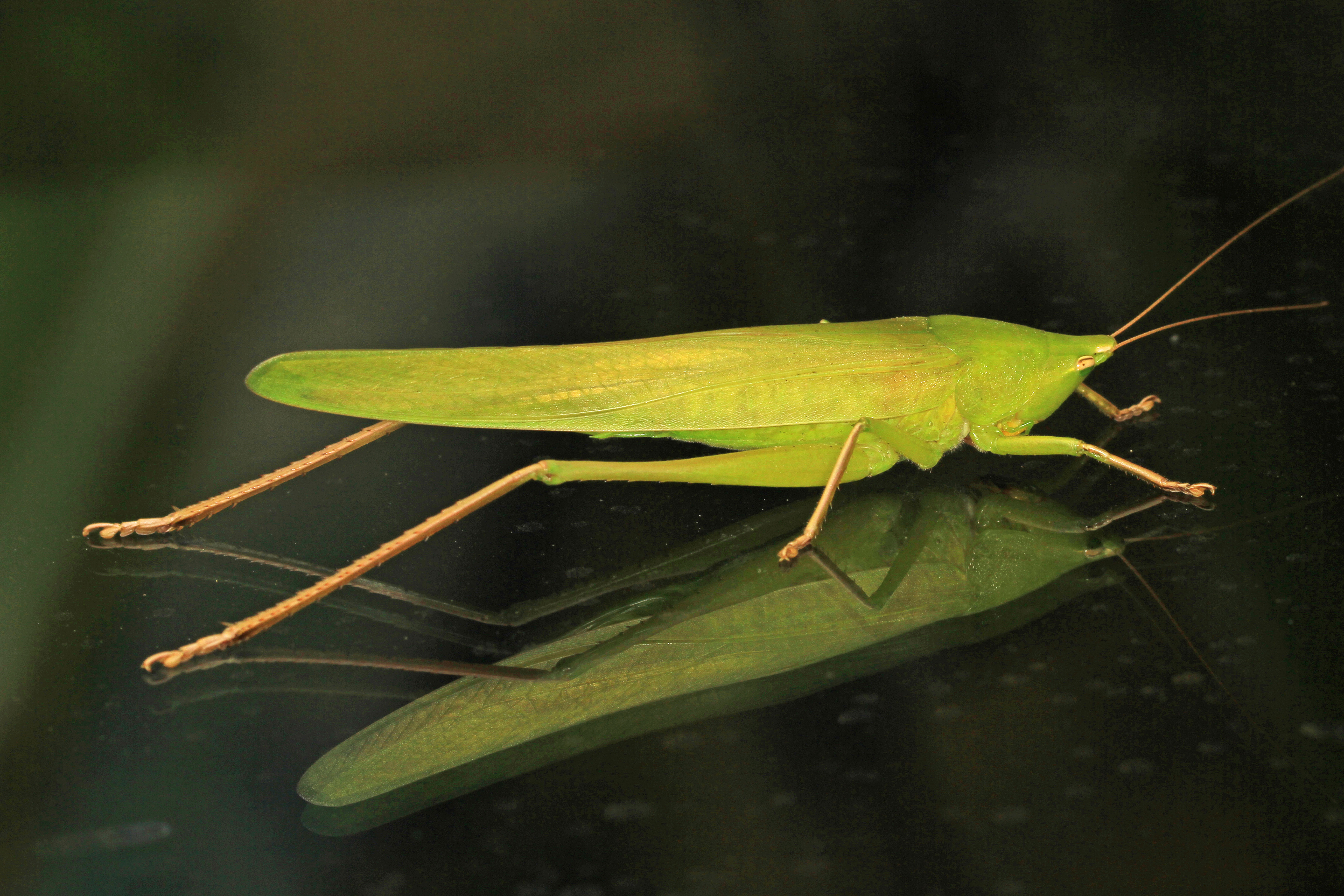 Broad-tipped Conehead Katydid - Neoconocephalus triops, near Leesville, Louisiana.